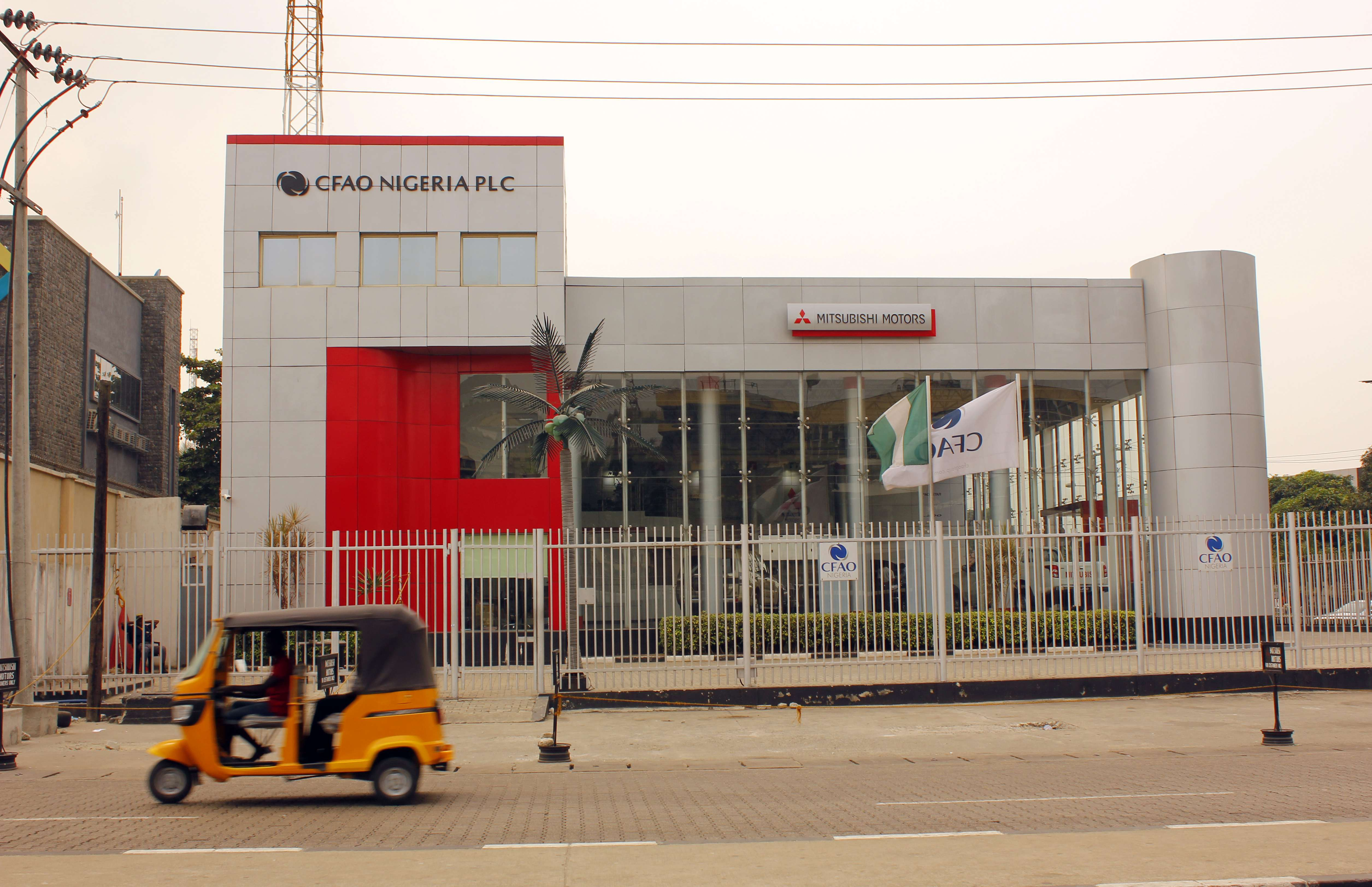 CFAO office in Victoria Island, Lagos